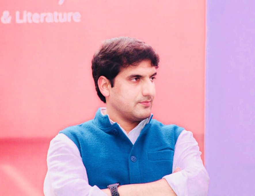 Mohammad Aijaz Asad in 2018